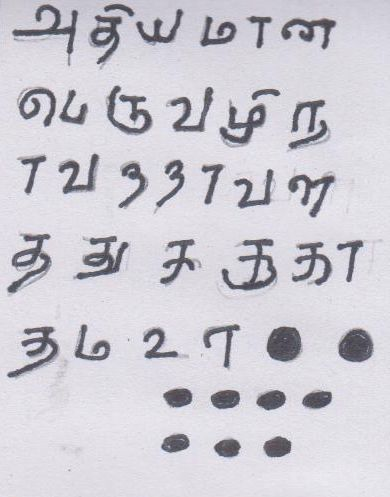 ADIYAMAN